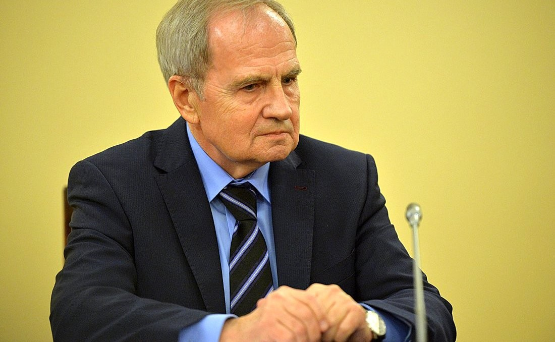 Chairman of the Constitutional Court of the Russian Federation Valery Zorkin. Saint-Petersburg, 8 dec 2014.